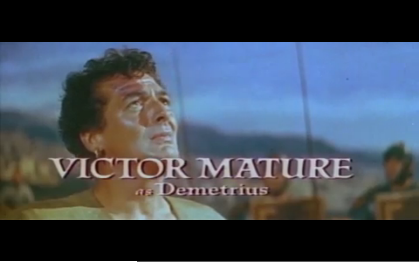 Trailer Screenshot of The Robe (1953).